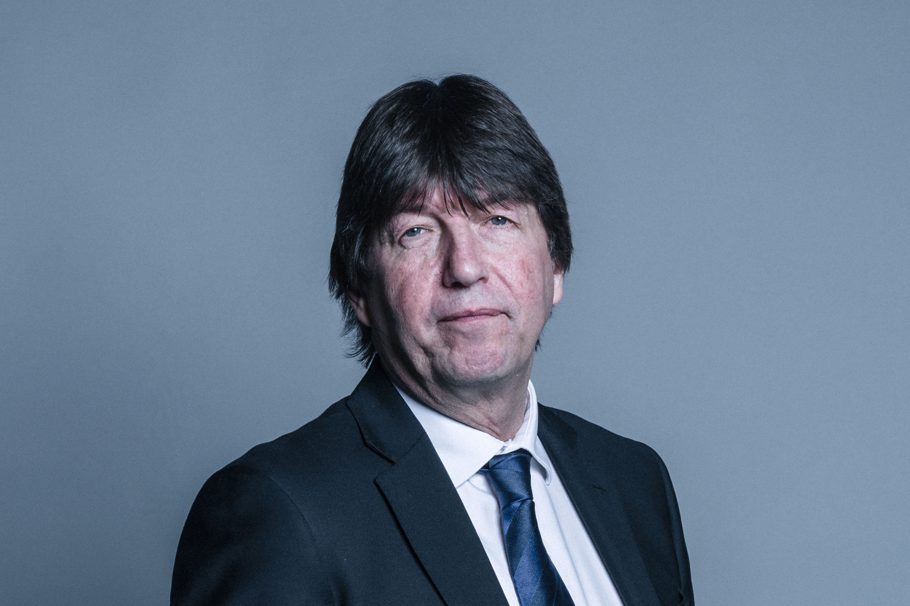 Official portrait of Lord Porter of Spalding